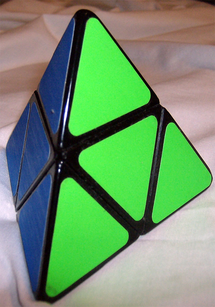 Took the picture myself.